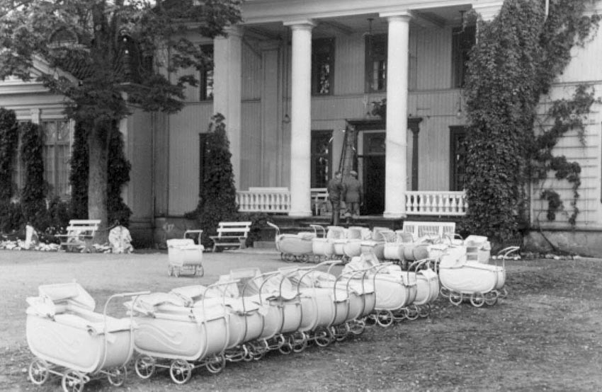 Image from Flickr album "Krigsbarn (Lebensborn)" by Riksarkivet (National Archives of Norway). Photos from Lebensborn birth houses in Nazi German occupied Norway during World War II.